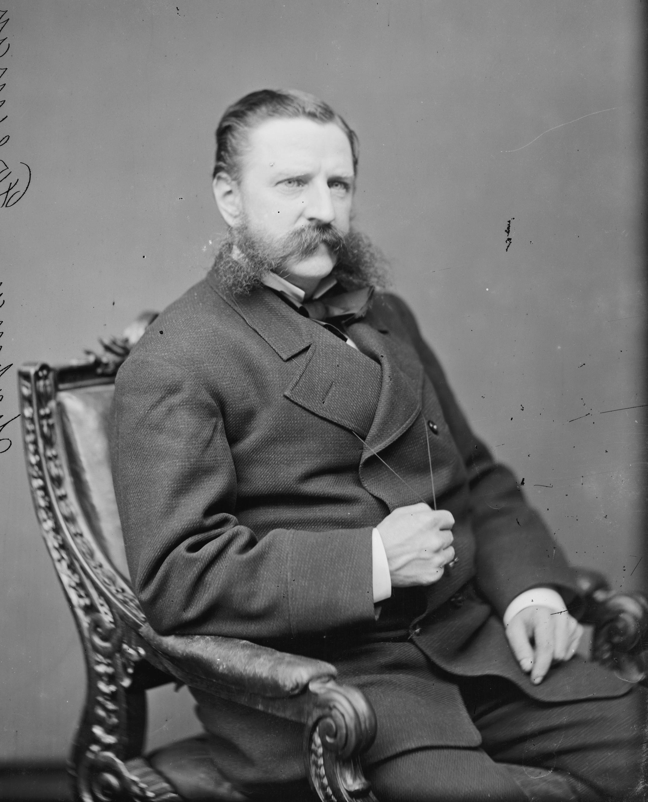 Chapman Freeman. Library of Congress description: "Freeman, Hon. Chapman of Pa."